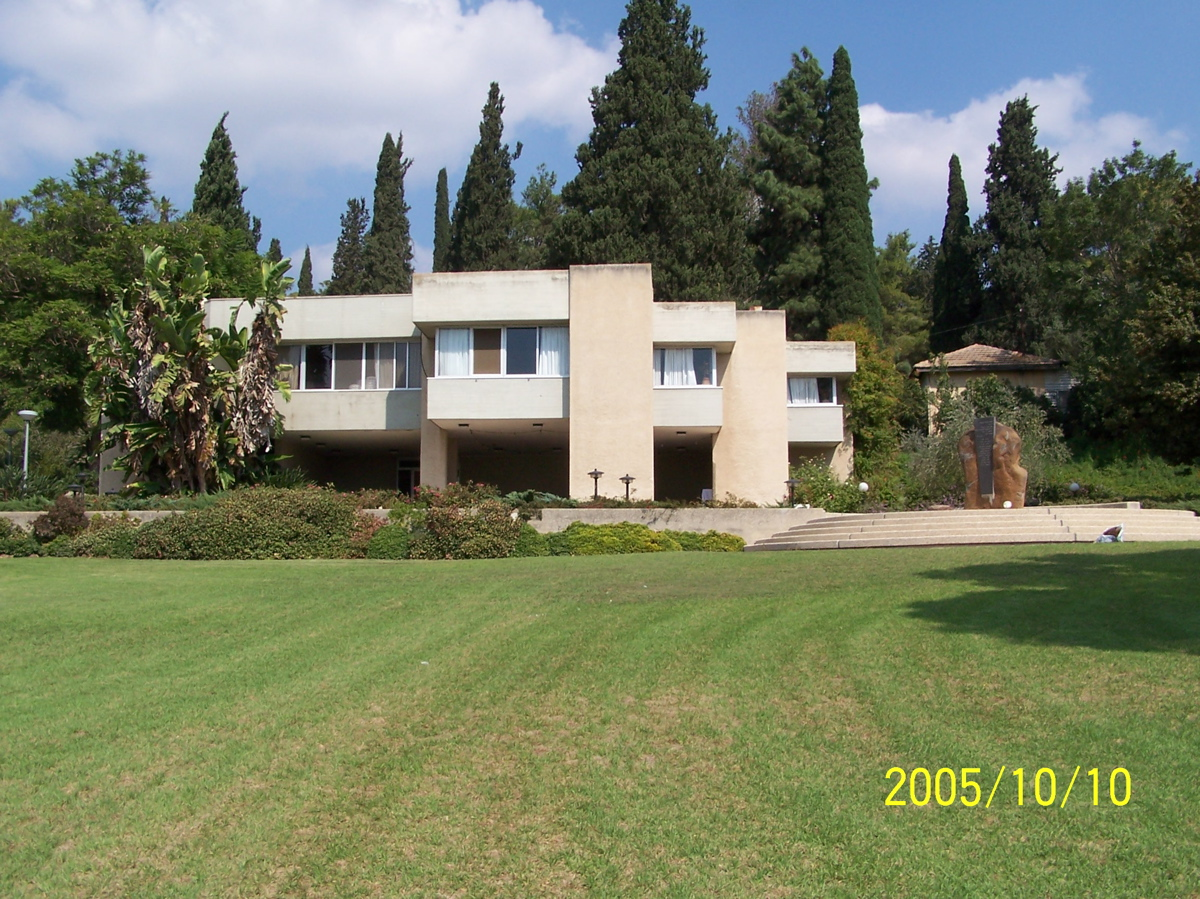 Dining hall מועדון לחבר